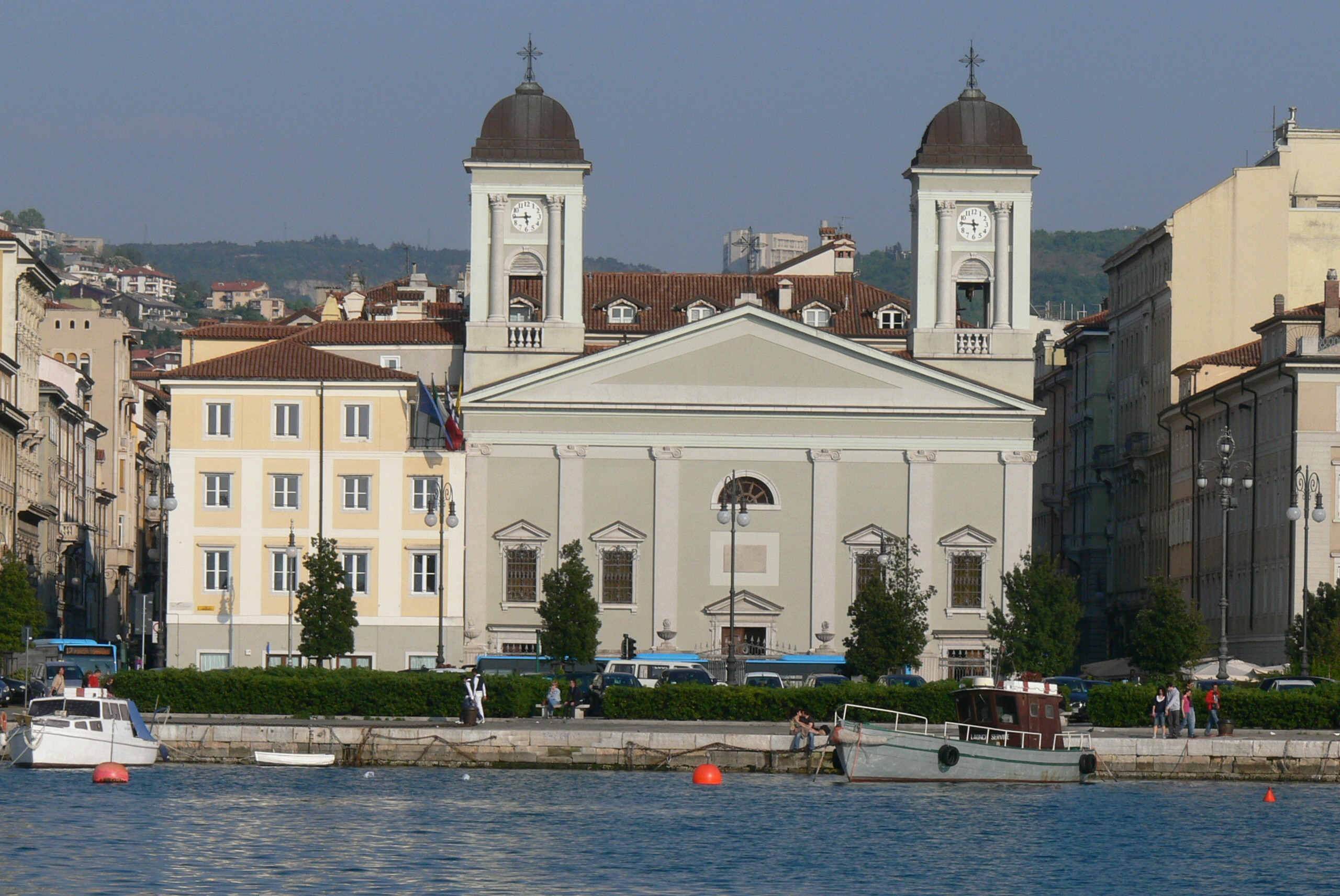 Trieste ( Italy ). View from Molo Audace - San Nicolo dei Greci ( 1786 ).